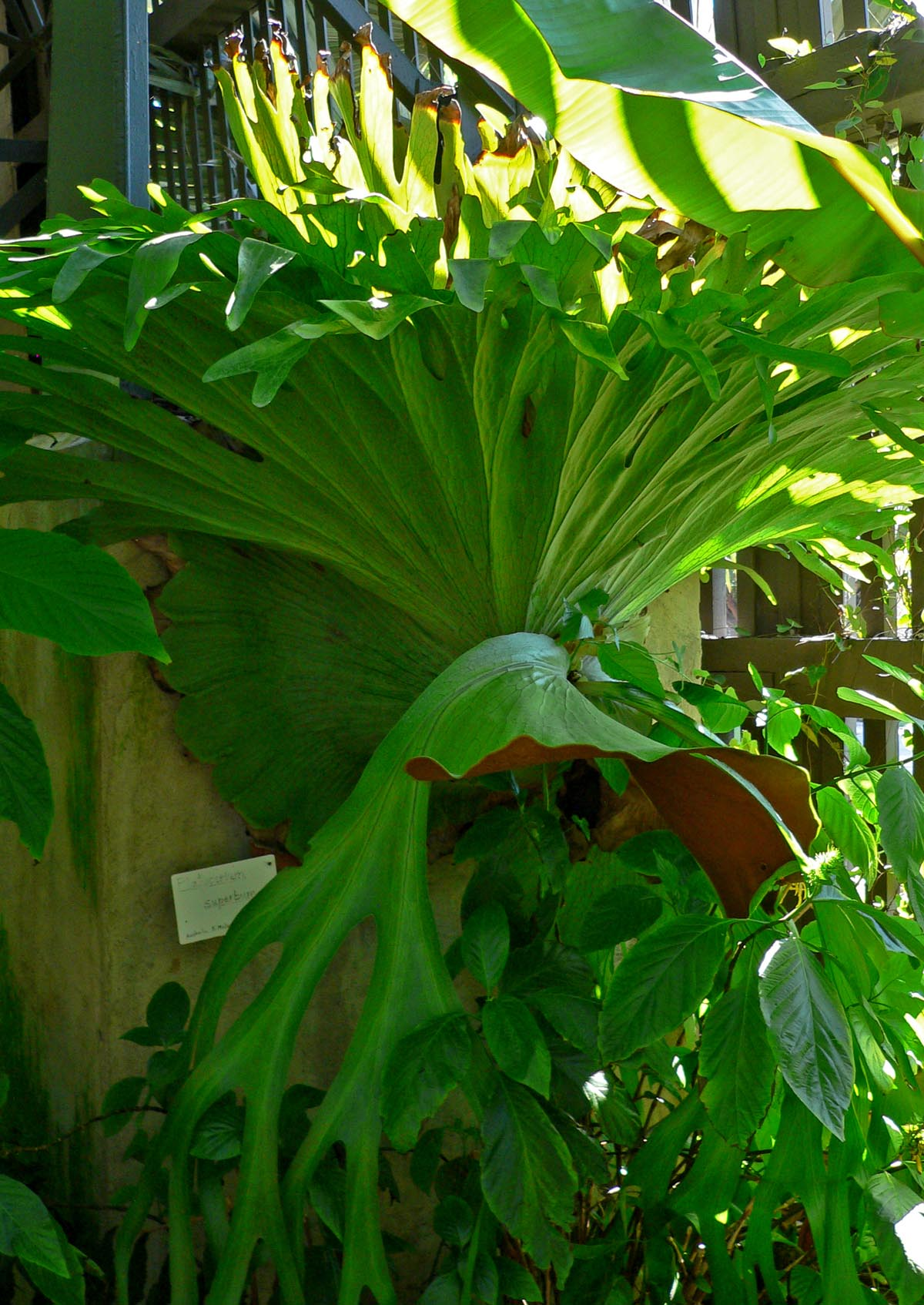 Photo of Platycerium superbum at Balboa Park